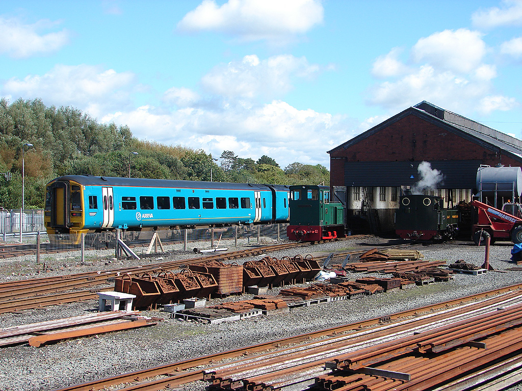 An Aberystwyth Railway Scene